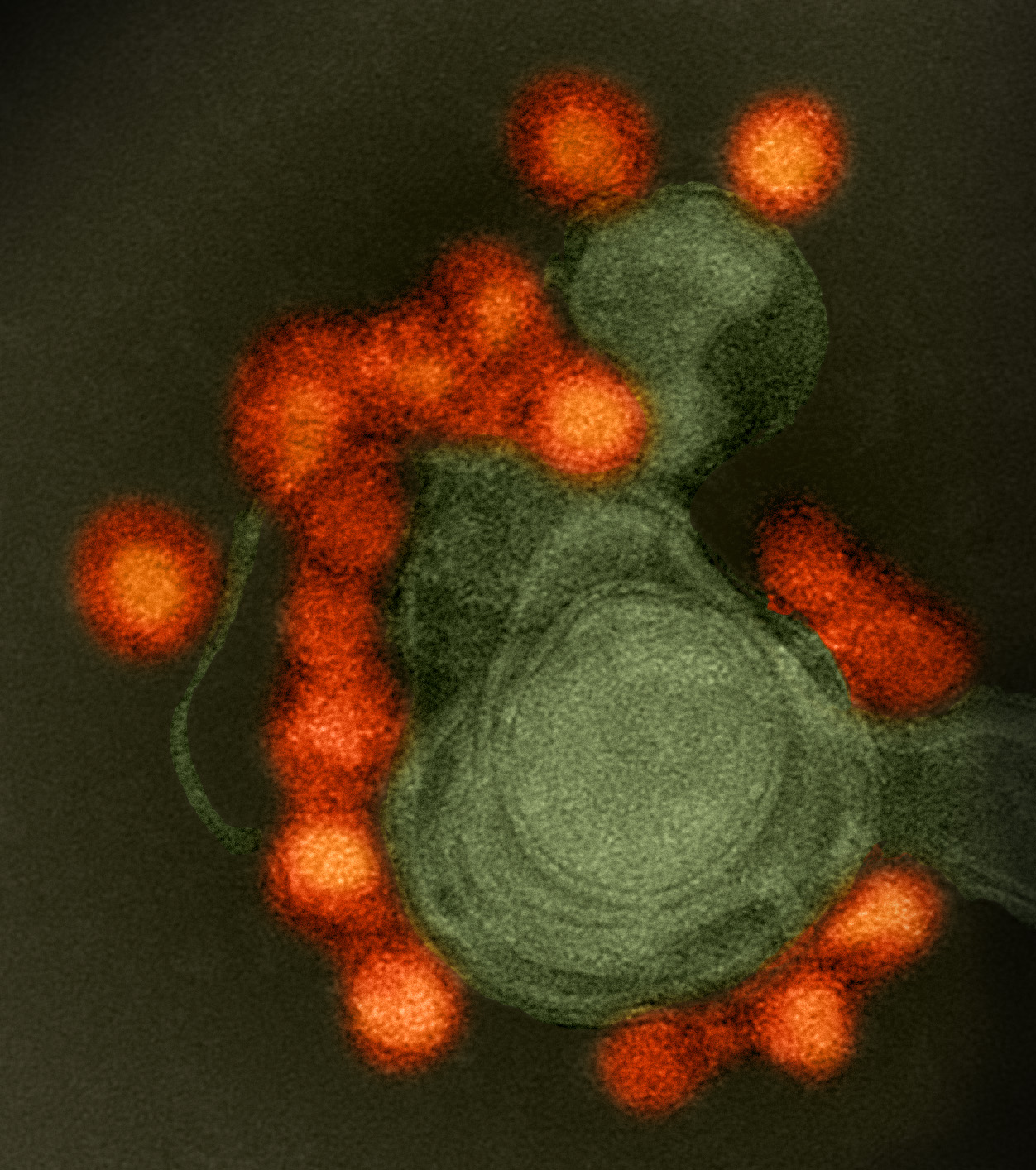 Transmission electron microscope image of negative-stained, Fortaleza-strain Zika virus (red), isolated from a microcephaly case in Brazil. Credit: NIAID